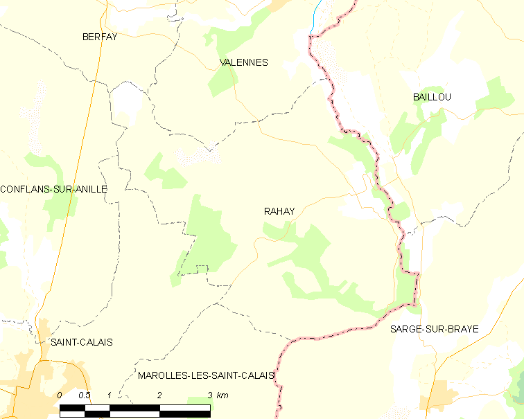 Map of French municipality